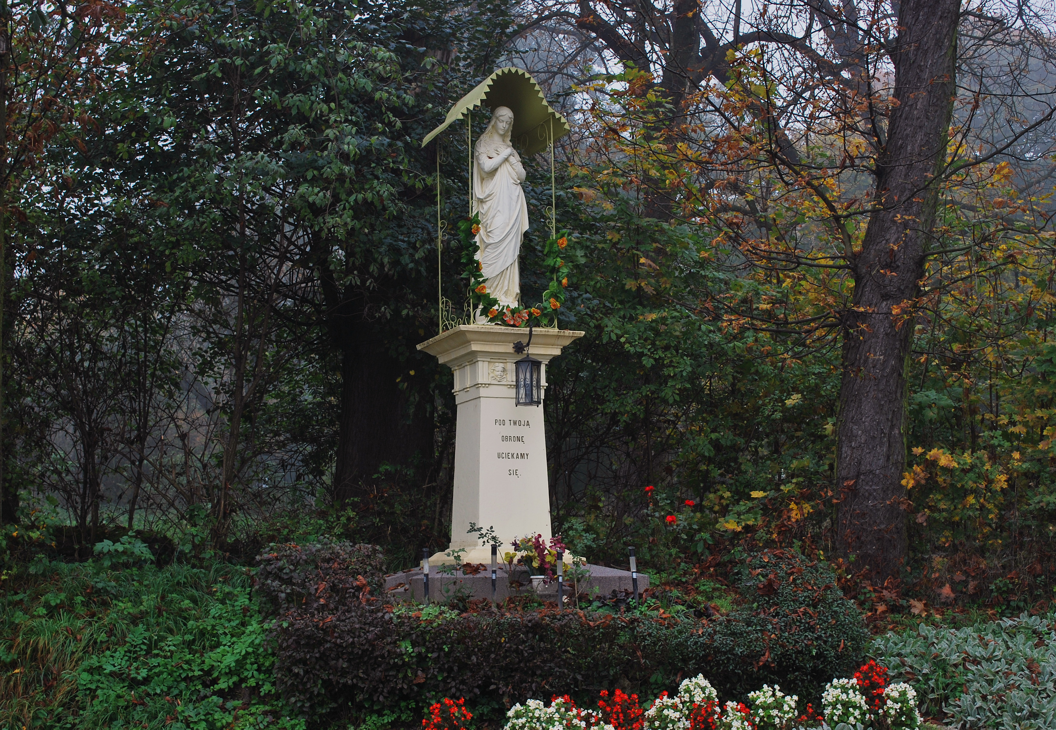 Our Lady wayside shrine, Piekary village, Kraków county, Lesser Poland Voivodeship, Poland